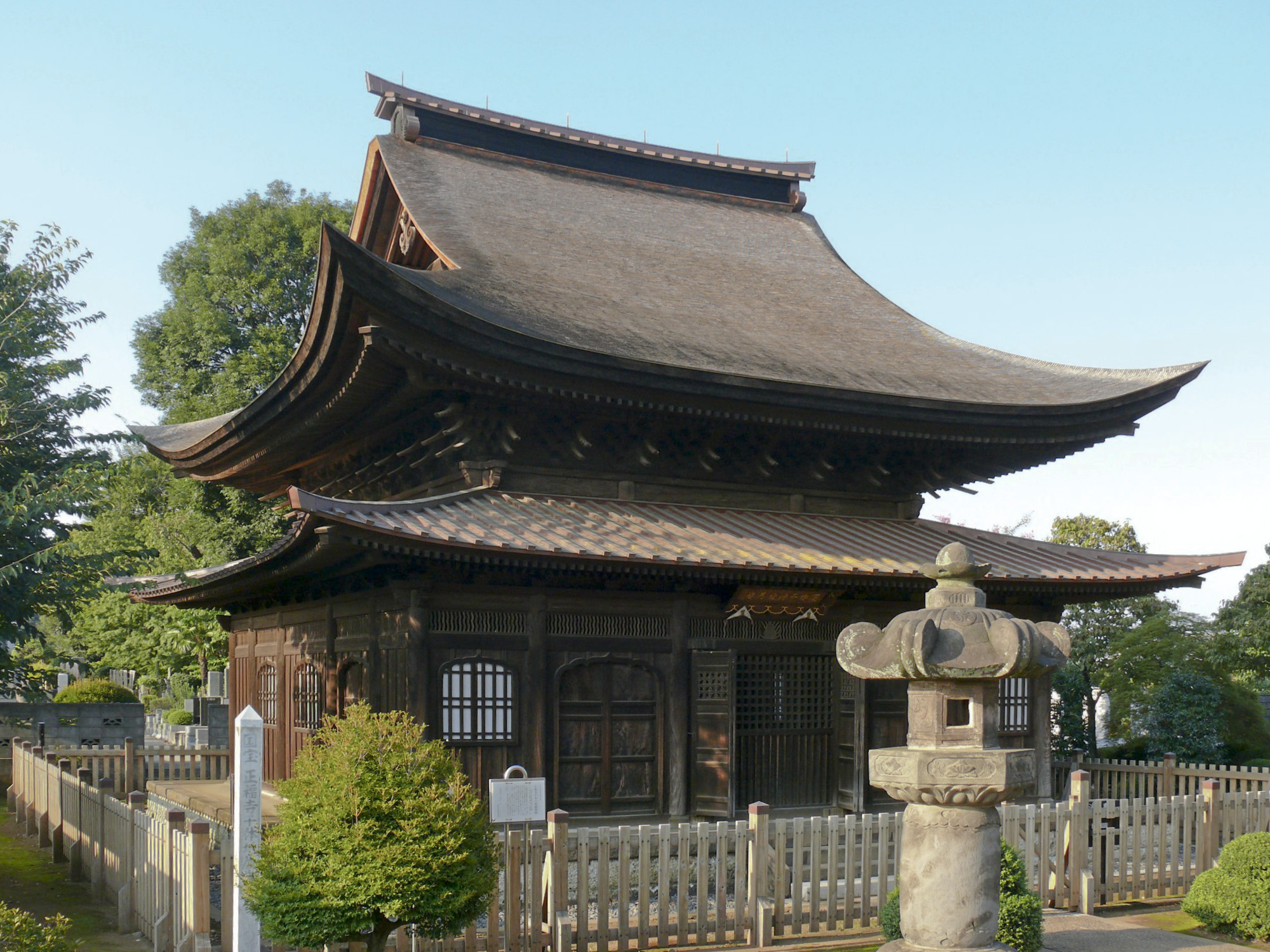 Shōfuku-ji Jizo Hall — from the left front. This building is a listed National Treasure of Japan and the only one of two in the Tokyo metropolitan district. It was built in 1278 and rebuilt in 1407 and is the oldest intact building in Tokyo. It it is one of the most complete and original Kamakura Era buildings in existence. It contains significant architectural innovations including the the use of elastic Japanese cypress, steel support chisels, decorative but functional brackets, and cantilevers. These innovations permitted a structure that appears lightweight and open with its curved hip roof, open interior, and floating, upturned eaves while being structurally sound against earthquakes.